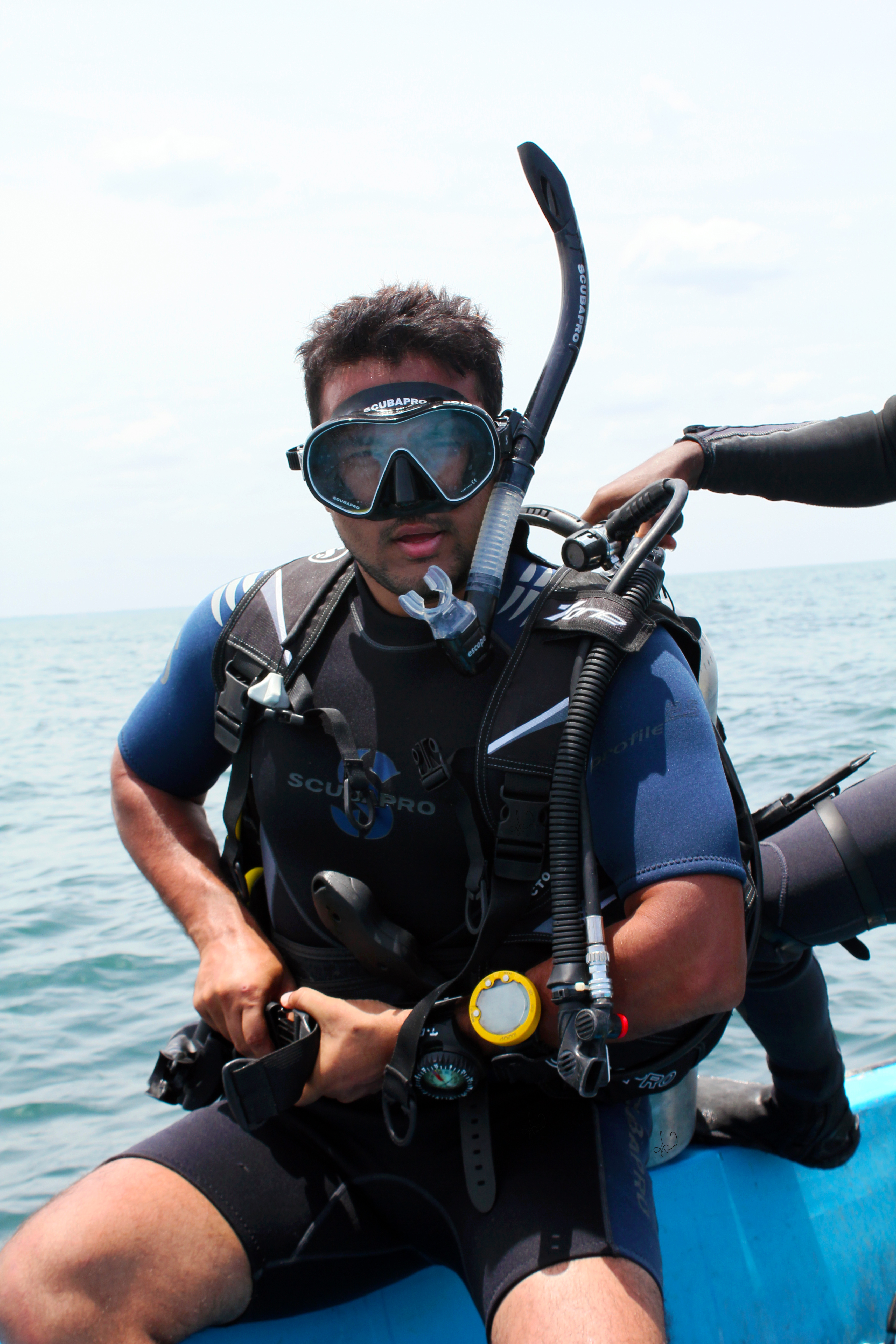 Scuba Diver setting-up his equipment before Diving at the Temple Reef in Pondicherry, India